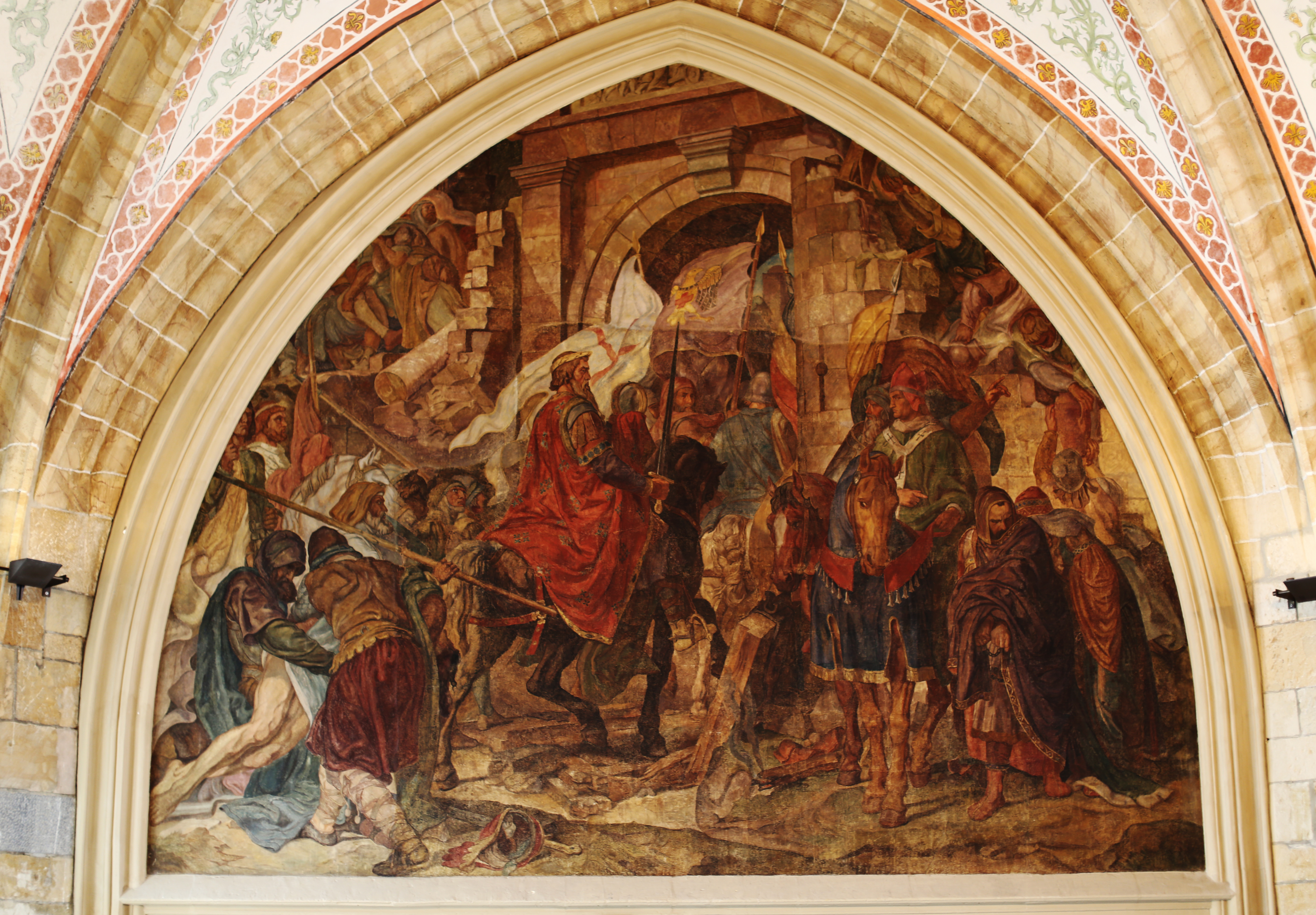 Fresko at the Gothic Aachen Rathaus, Interior of Coronation Hall